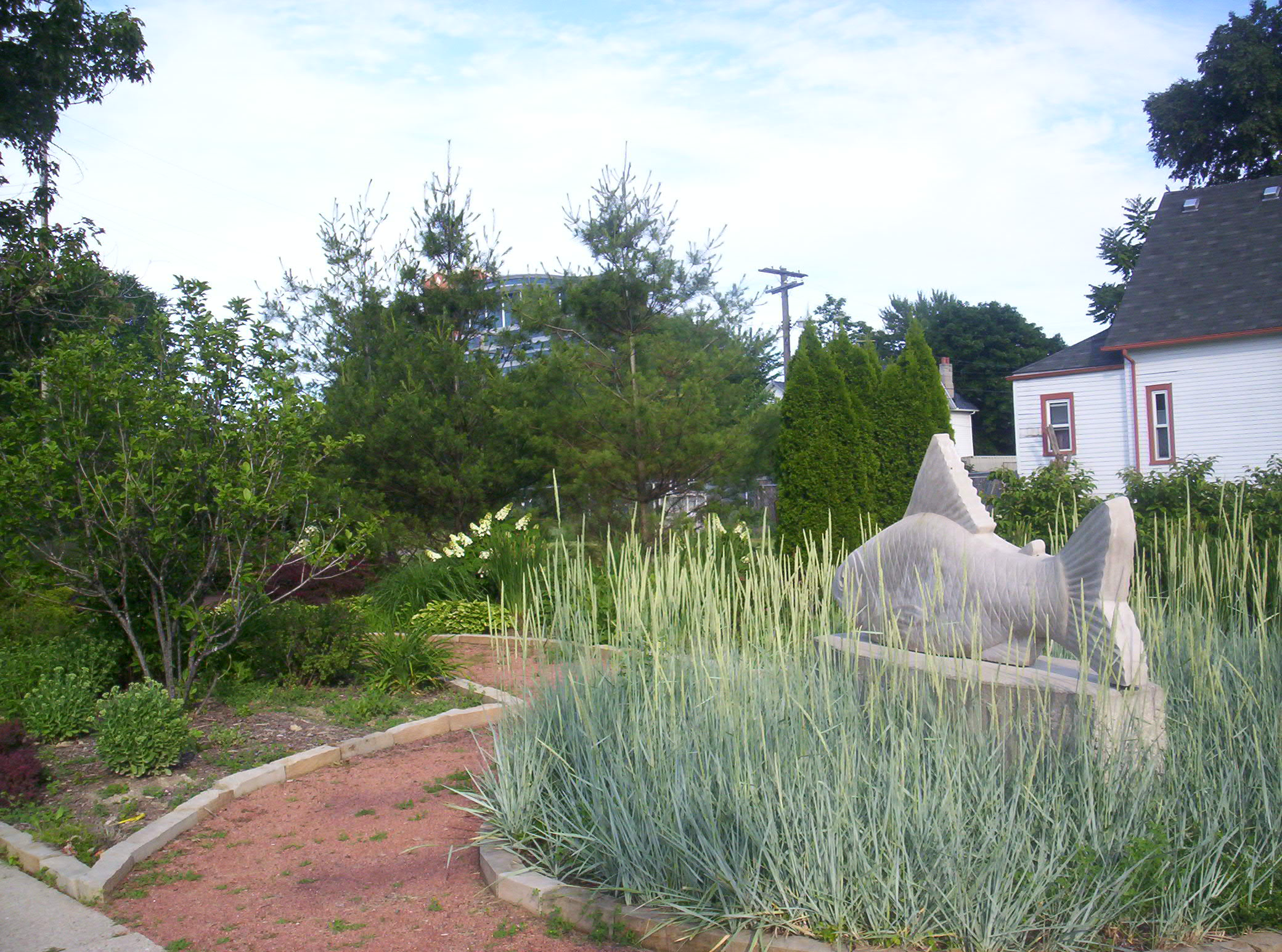 North Corktown apartment building.